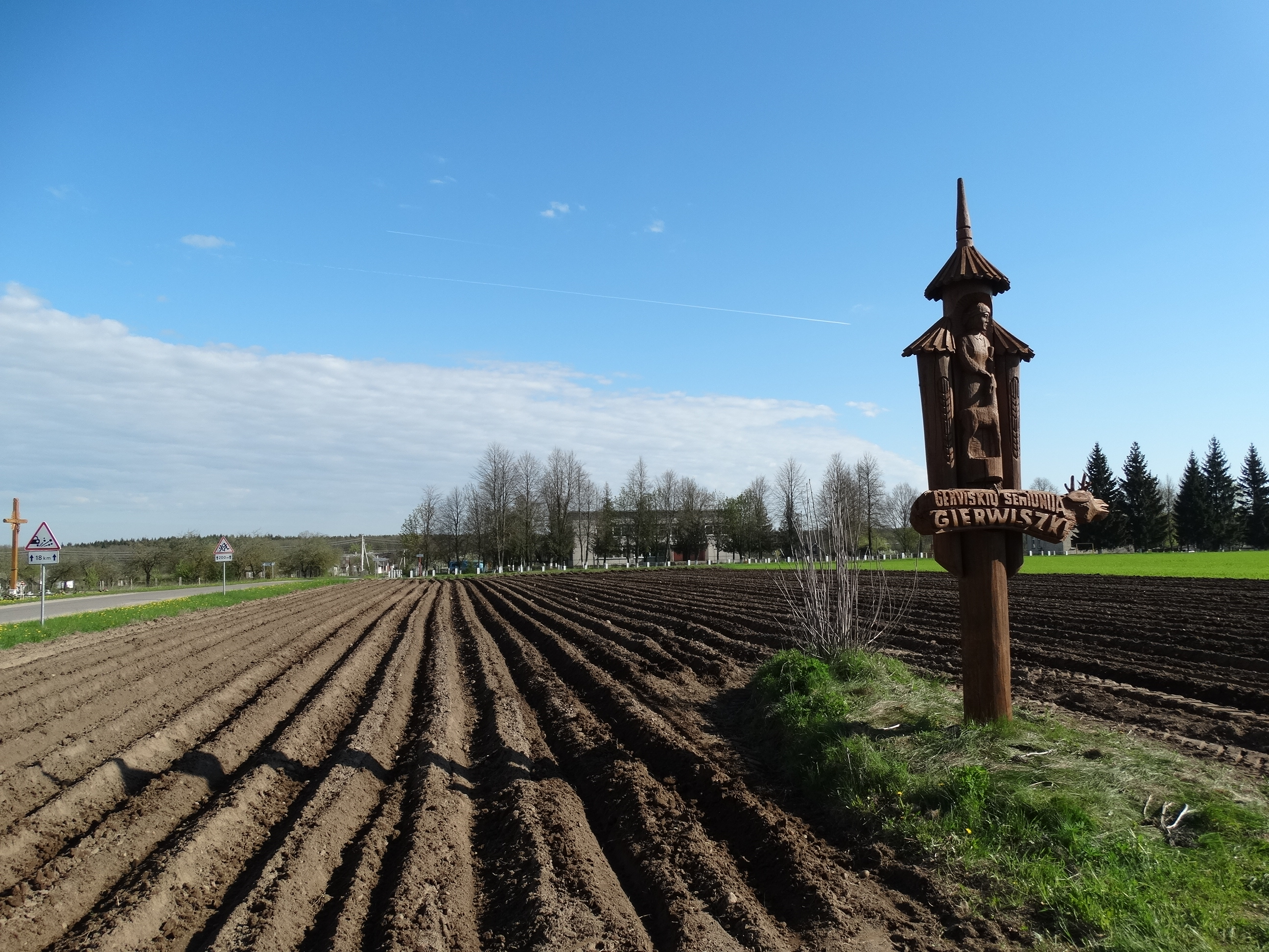 Gerviškės, Šalčininkai District, Lithuania